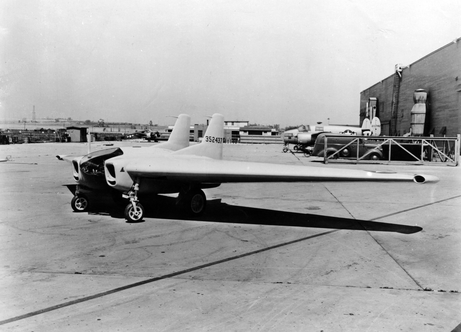 The U.S. Army Air Force Northrop XP-79B experimental jet aircraft (s/n 43-52438), in 1945. Note the Fairchild AT-21-FB Gunner aircraft (s/n 42-11742) in the background.